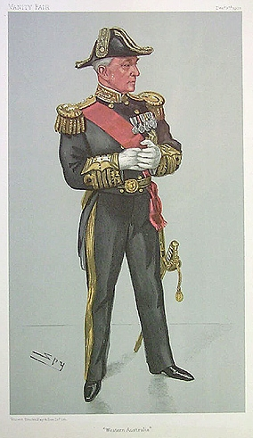 Caricature of Admiral Sir F.G.D. Bedford. Caption read "Western Australia".